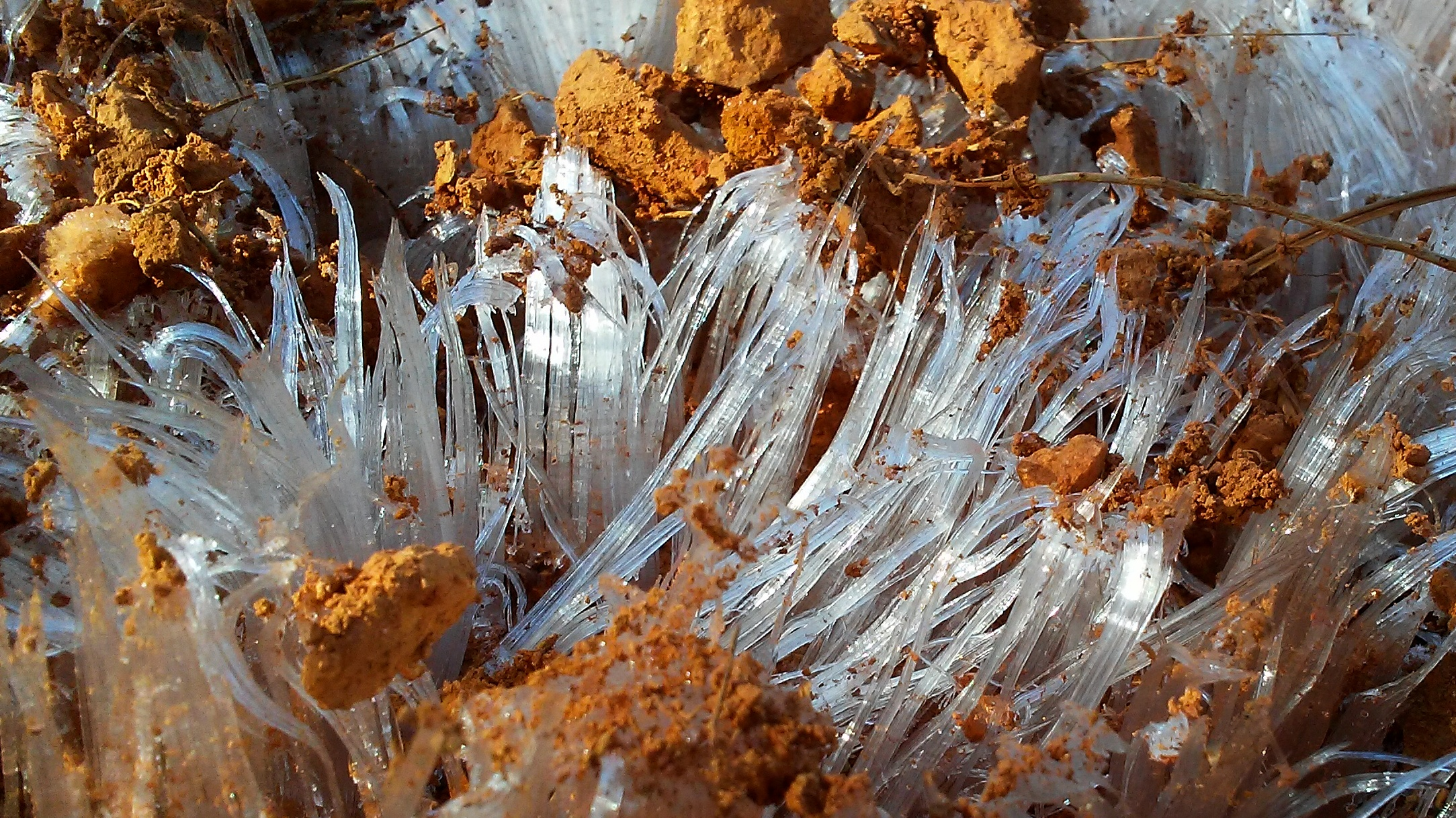 Needle ice in the Uwharrie National Forest, North Carolina, USA, February 2017. Photos shows distinct strands of ice and displaced dirt.